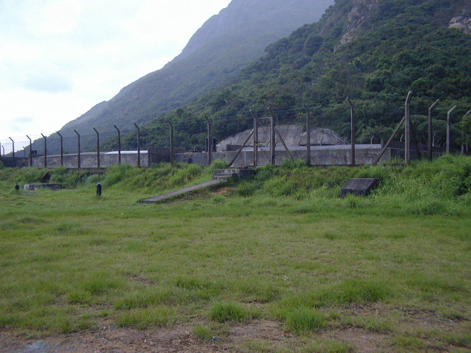 Photo of Pok Fu Lam No. 1 Service Reservoir